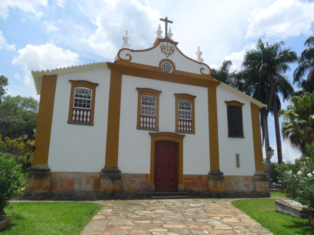 Our Lady of Mercy Chapel in Tiradentes, Minas Gerais, Brazil